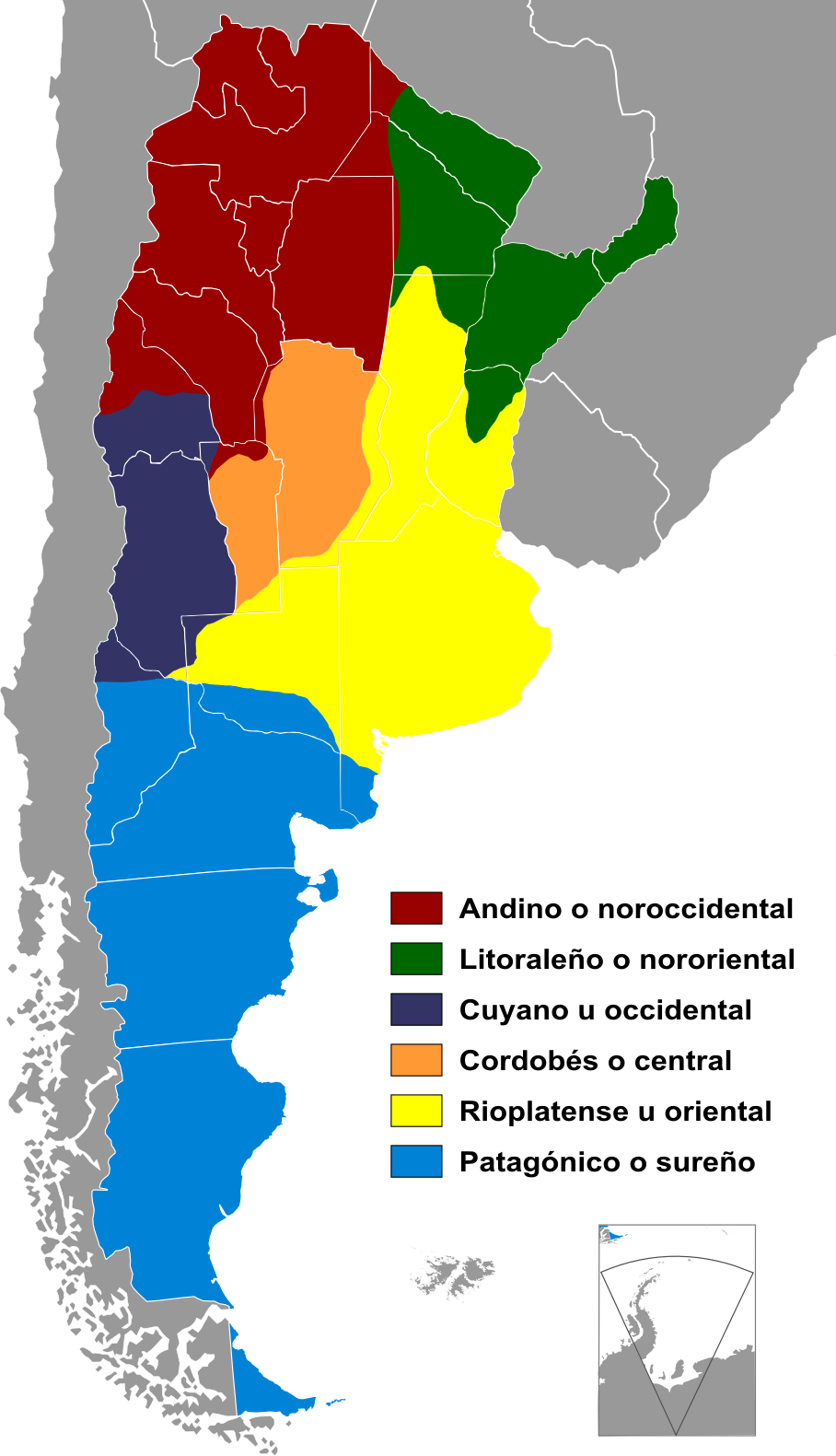 Dialects of Spanish in Argentina